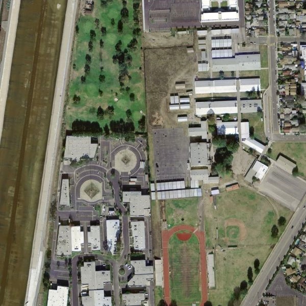 Dominguez High School aerial photograph